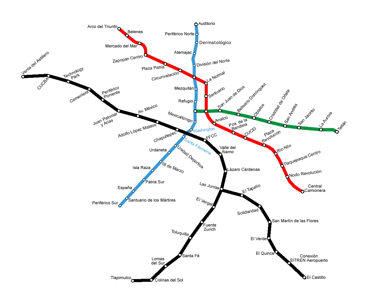 Railway network of Public Transport in Guadalajara (Mexico), visualyzing the suburban train project.